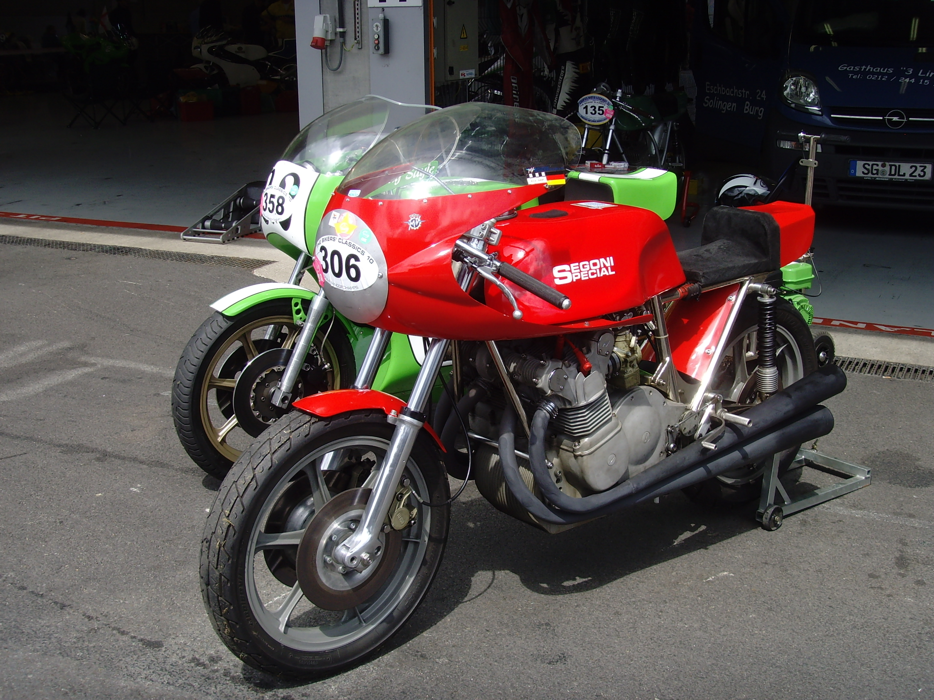 MV Agusta 750 Special by Segoni, 1974